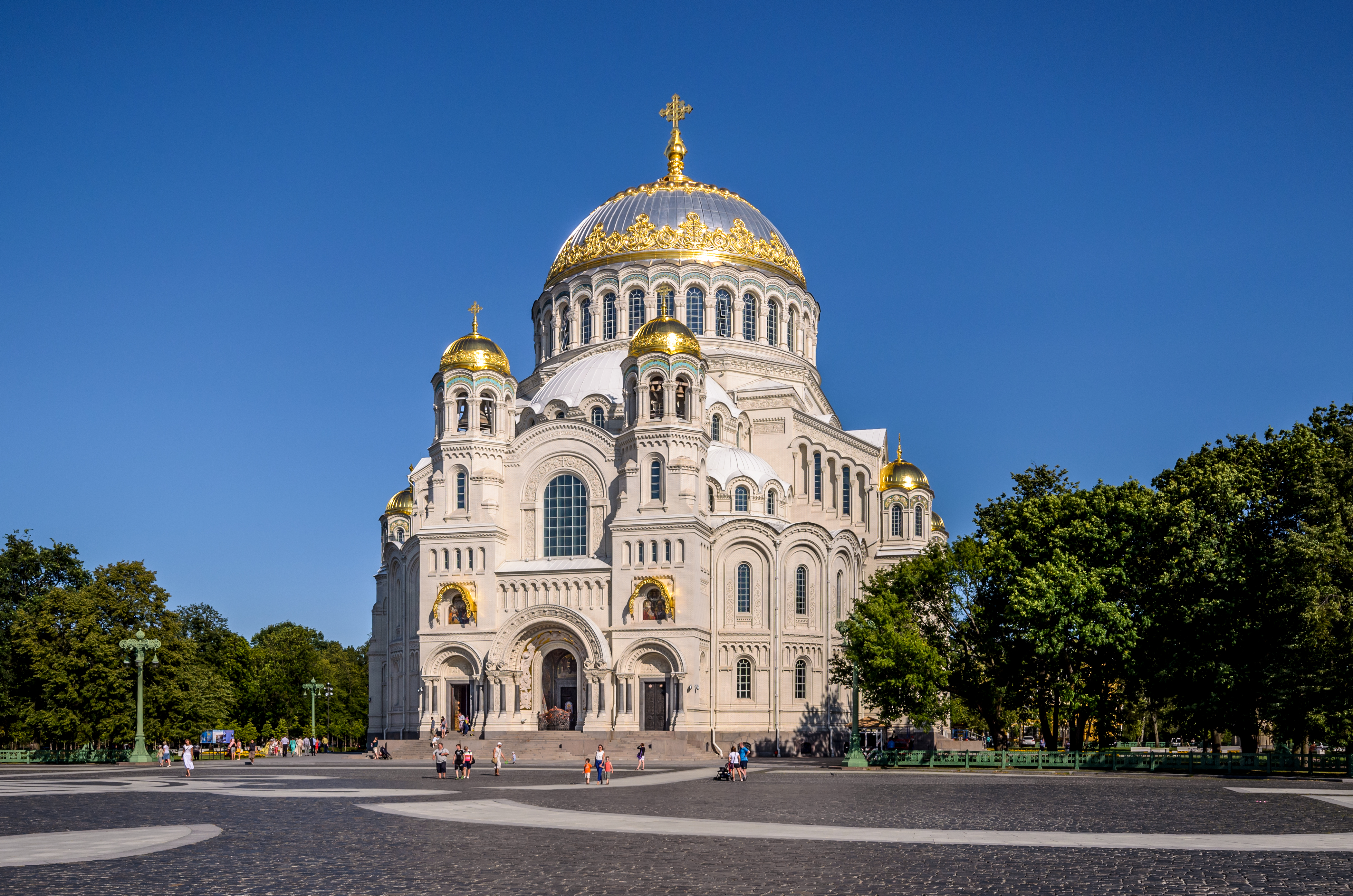 Naval Cathedral of Saint Nicholas in Kronstadt